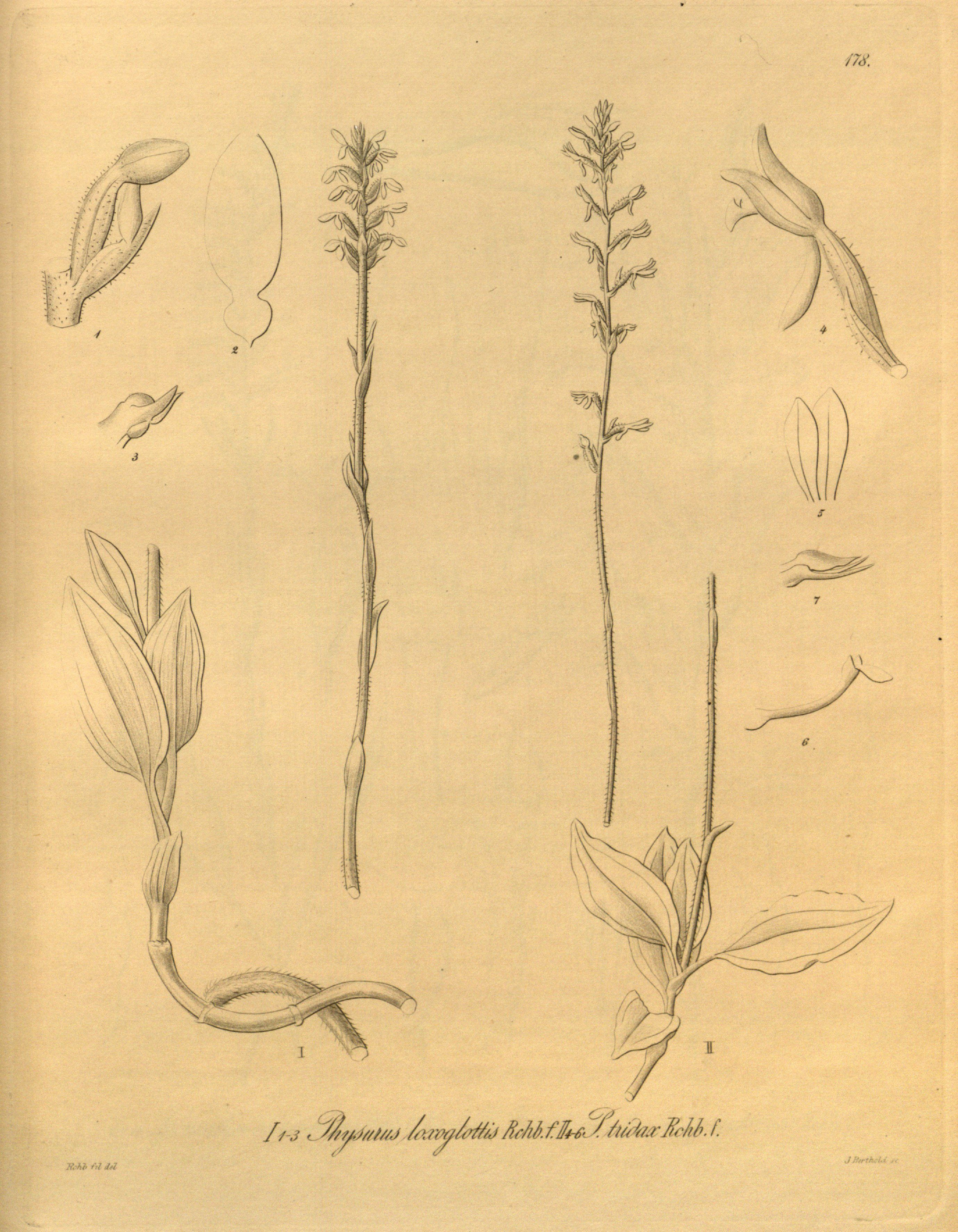 Illustration of I, 1. Kreodanthus loxoglottis (as syn. Physurus loxoglottis) II, 4-6.Microchilus tridax (as syn. Physurus tridax)